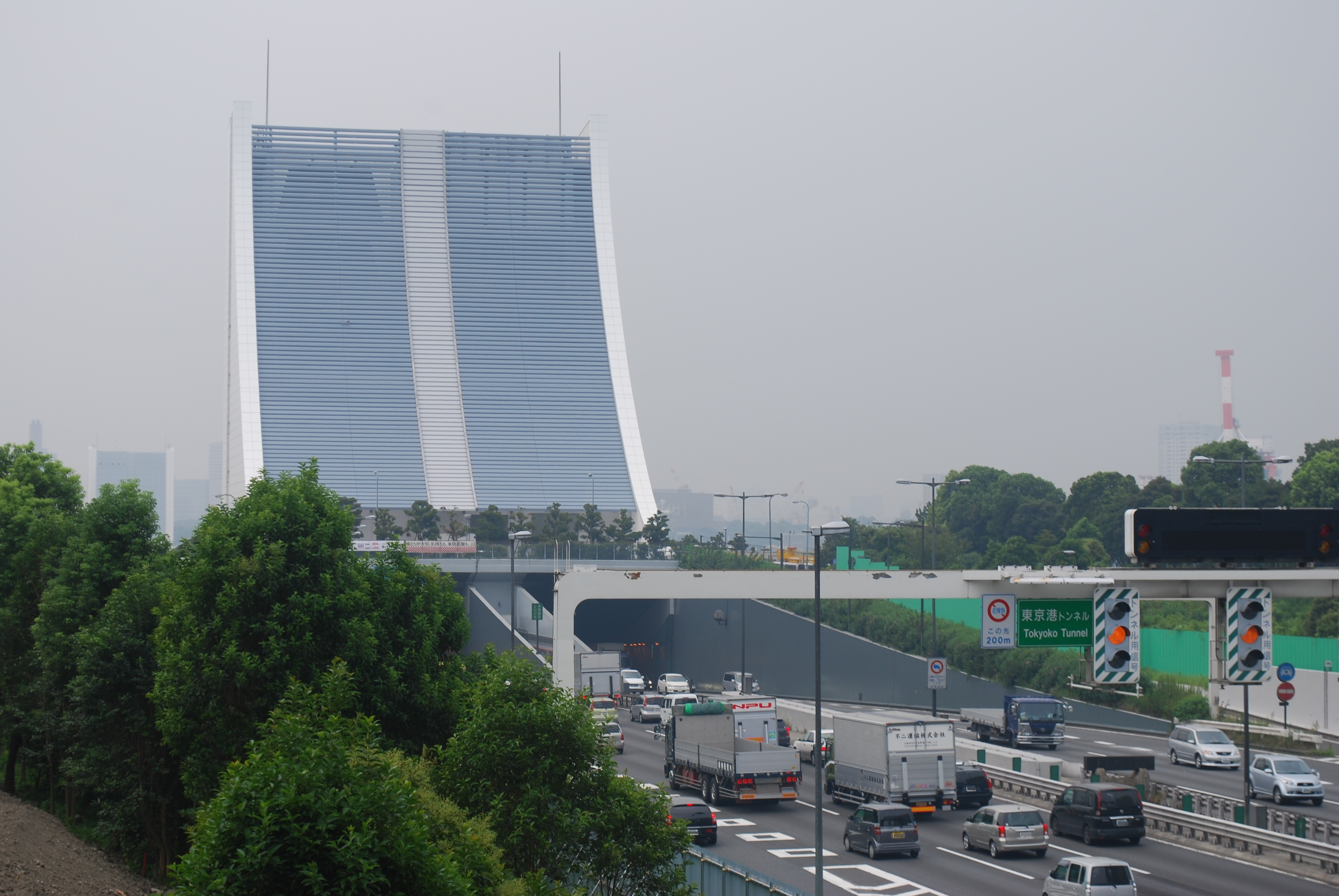 Tokyo-ko tunnel, Shinagawa ward, Tokyo, Japan